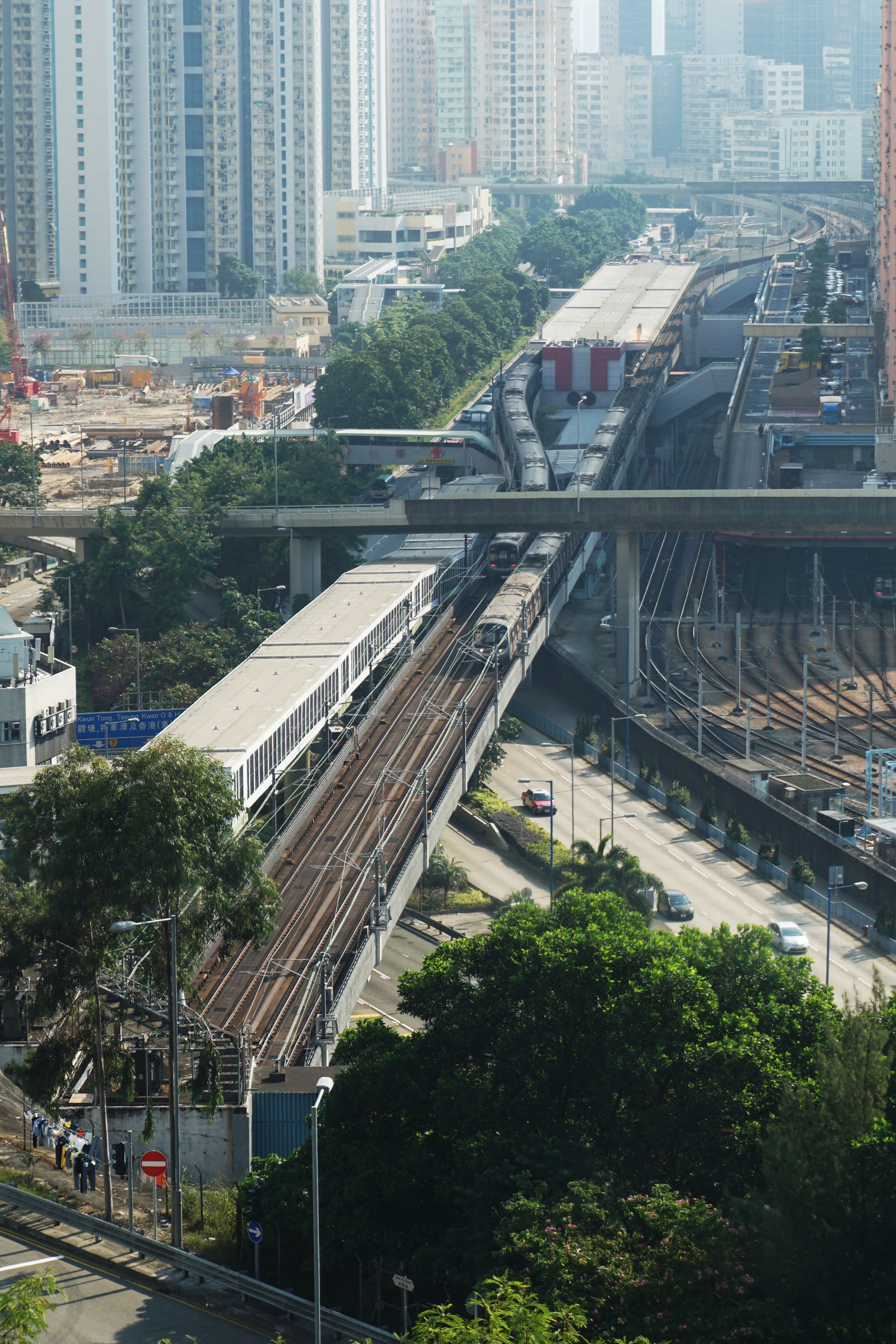 Mass Transit Railway in Hong Kong.